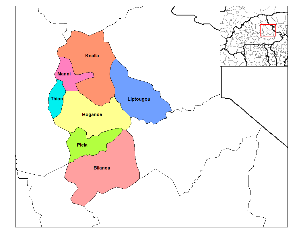 Map of the departments of Gnagna province in Burkina Faso. Created by Rarelibra 03:18, 30 September 2006 (UTC) for public domain use, using MapInfo Professional v8.5 and various mapping resources.